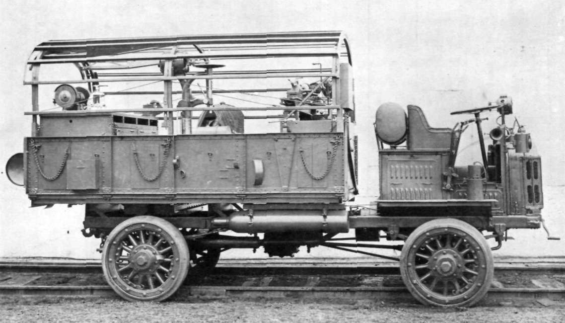 Artillery repair truck Model M-1918.